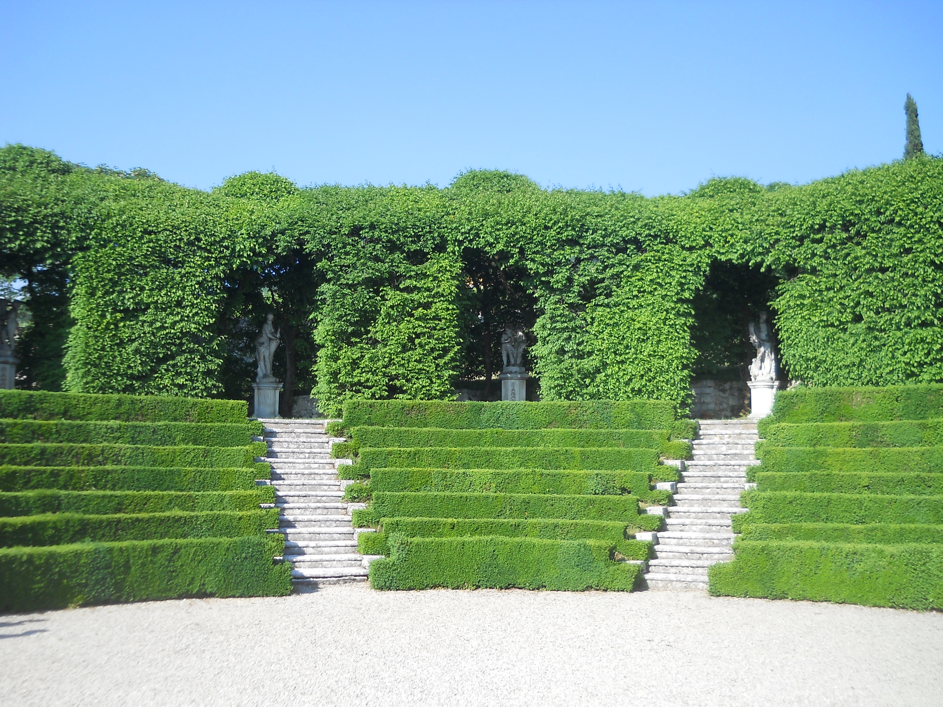 Pojega garden at Rizzardi villas in Negrar (Verona)